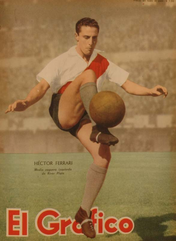 River Plate footballer Héctor Ferrari